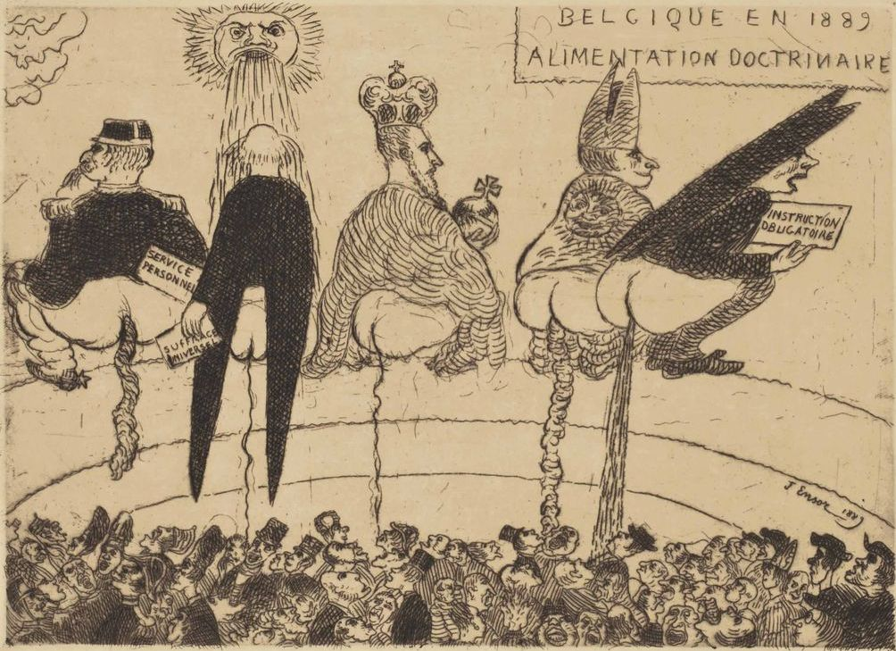 James Ensor, Alimentation doctrinaire, 1889